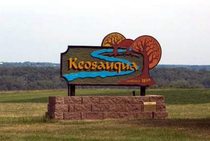 Welcome sign near the entrance of Keosauqua, Iowa